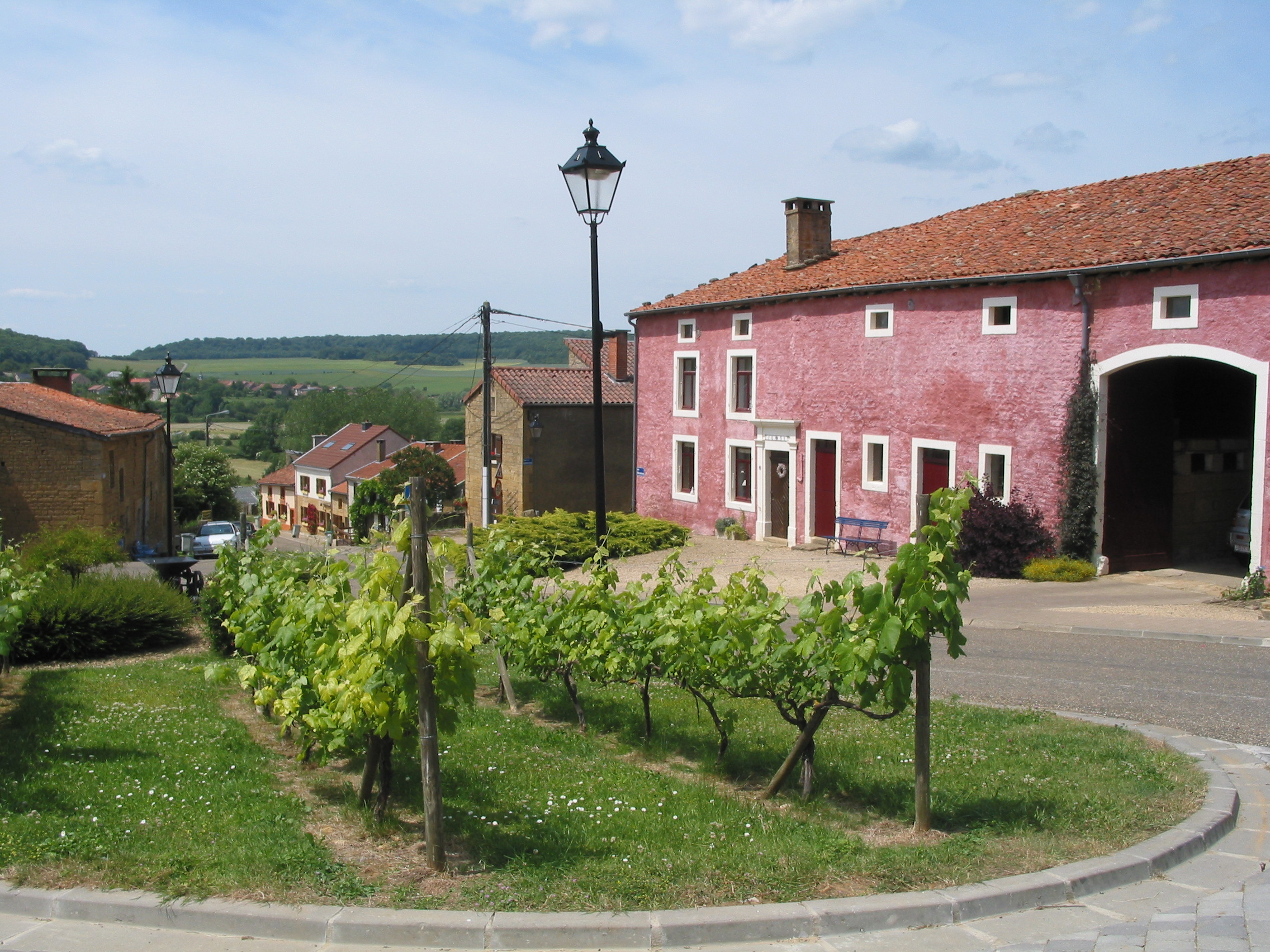 Torgny (Belgium), the pink farm.